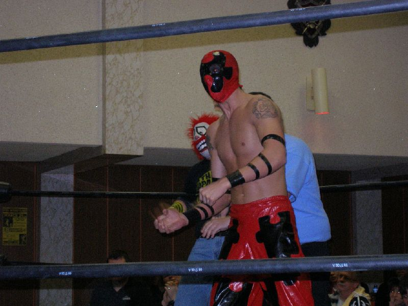 Professional wrestler Jigsaw at Chikara Night #1 in Hellertown, PA on February 16, 2007